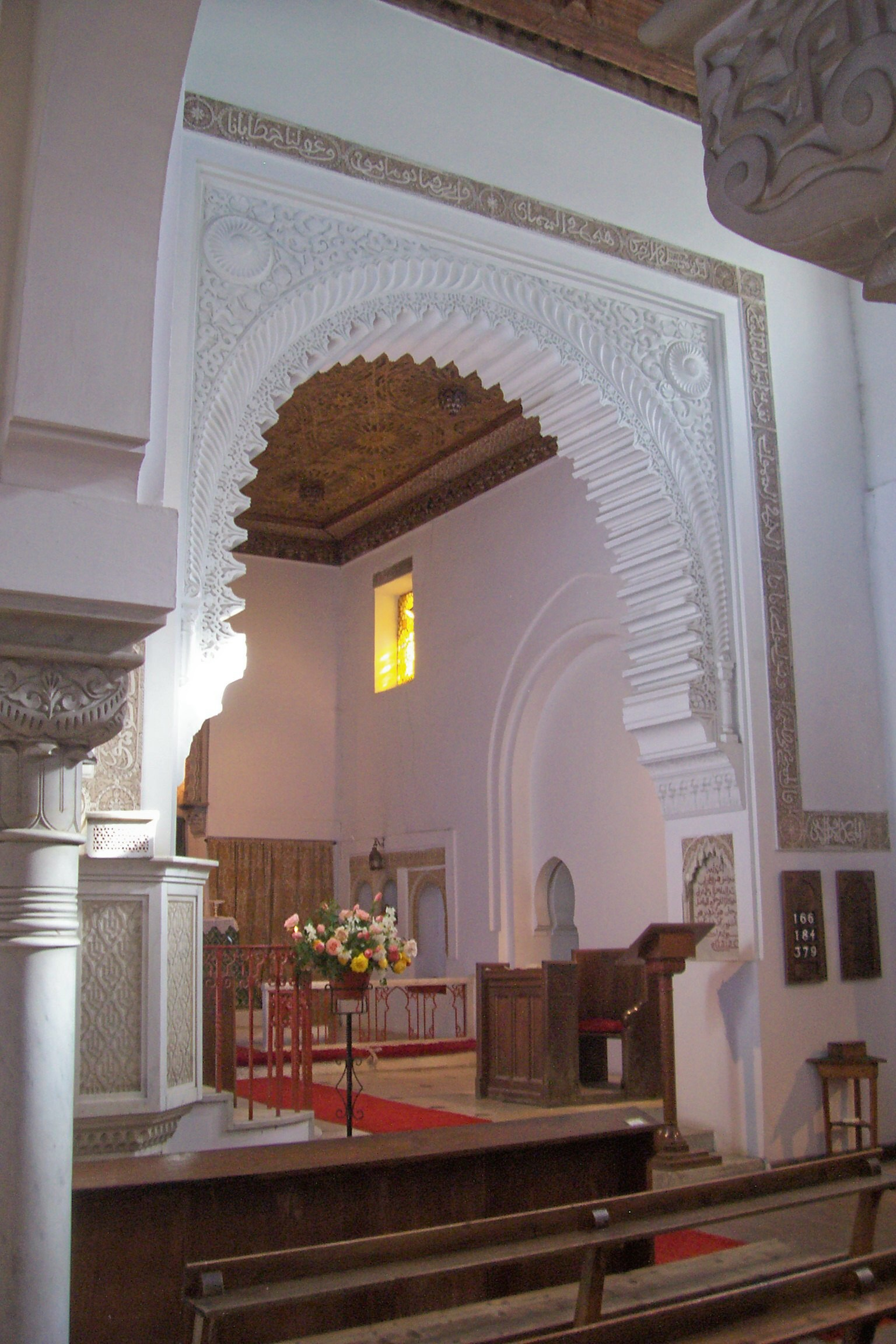 St. Andrews church, Tangier